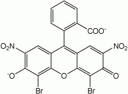 Description: Chemical structure of Eosin B Author, date of creation: selfmade by Shaddack, 4 November 2005 Source: self-made Copyright: Public Domain (PD) Comments: b/w hires PNG; ChemDraw